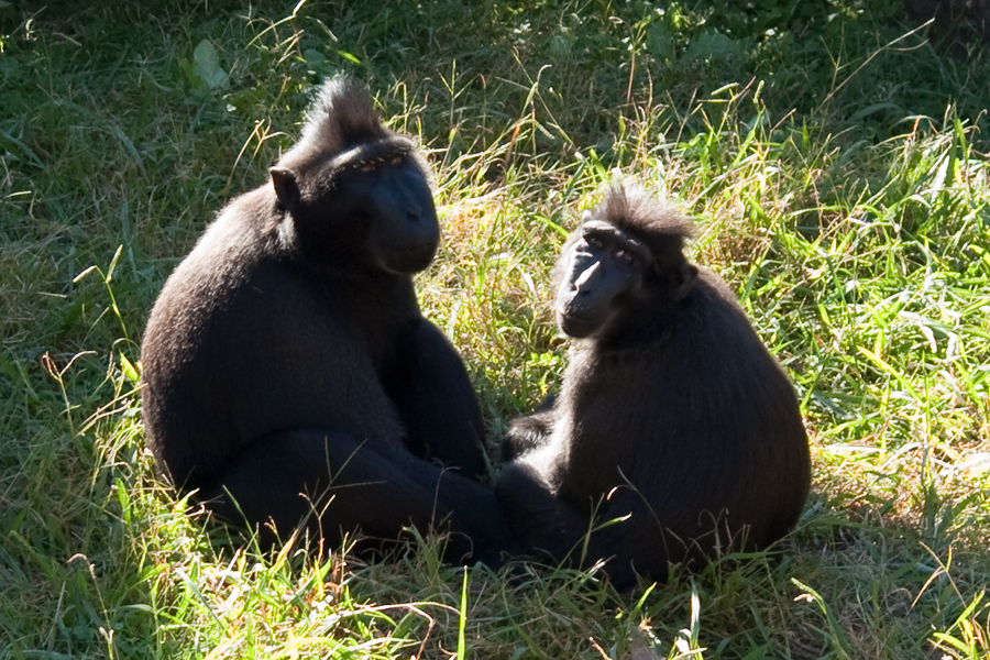 Celebes Crested Macaque (Macaca nigra) pair at the Memphis Zoo.